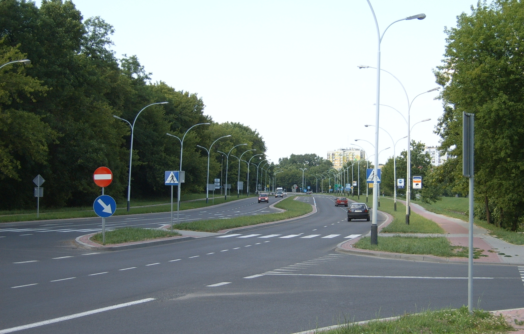 Quarter "Janowice housing estate" in Zamość; Dzieci Zamojszczyzny St. (national road 74)